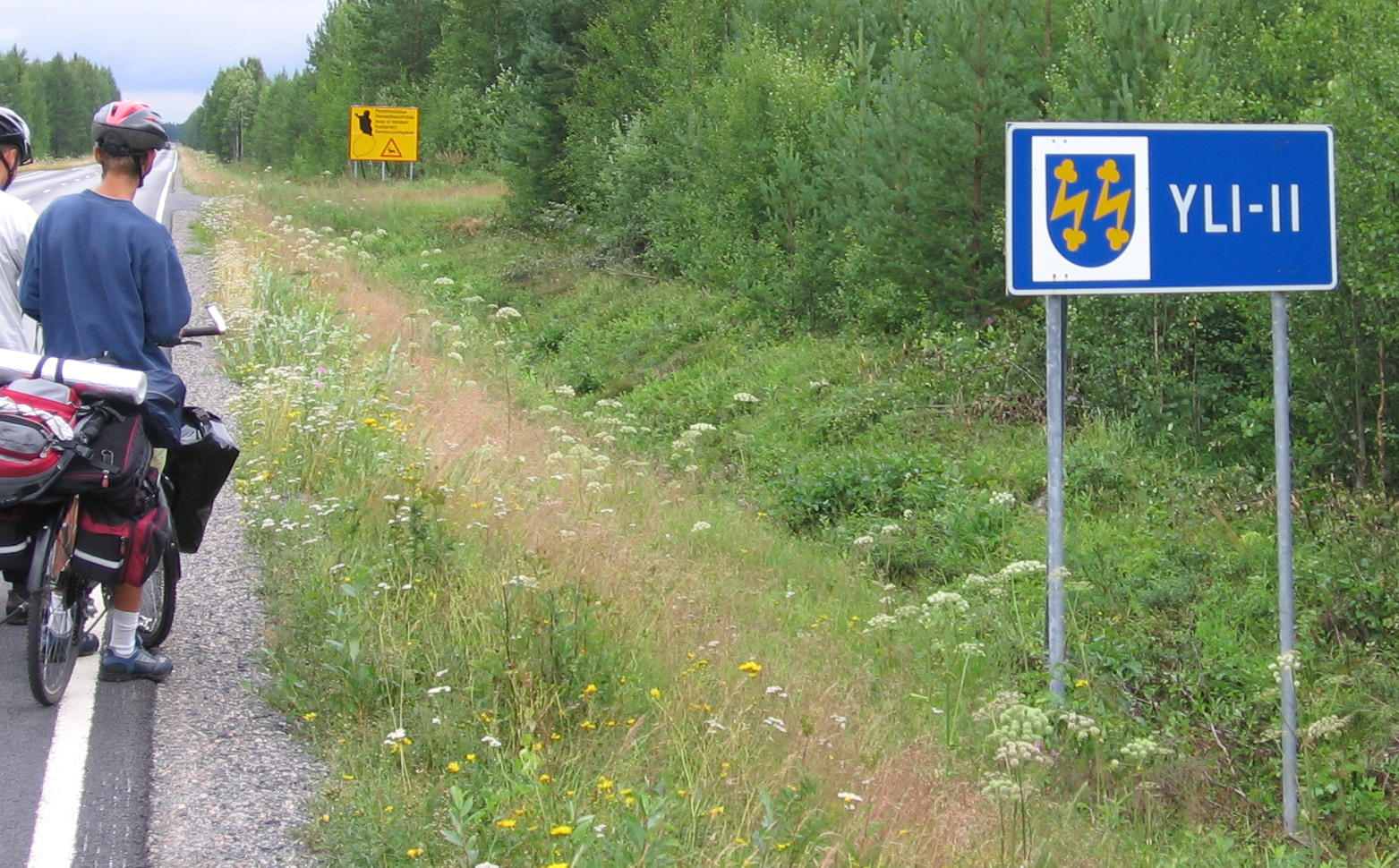 Municipal border sign of Yli-Ii, Finland